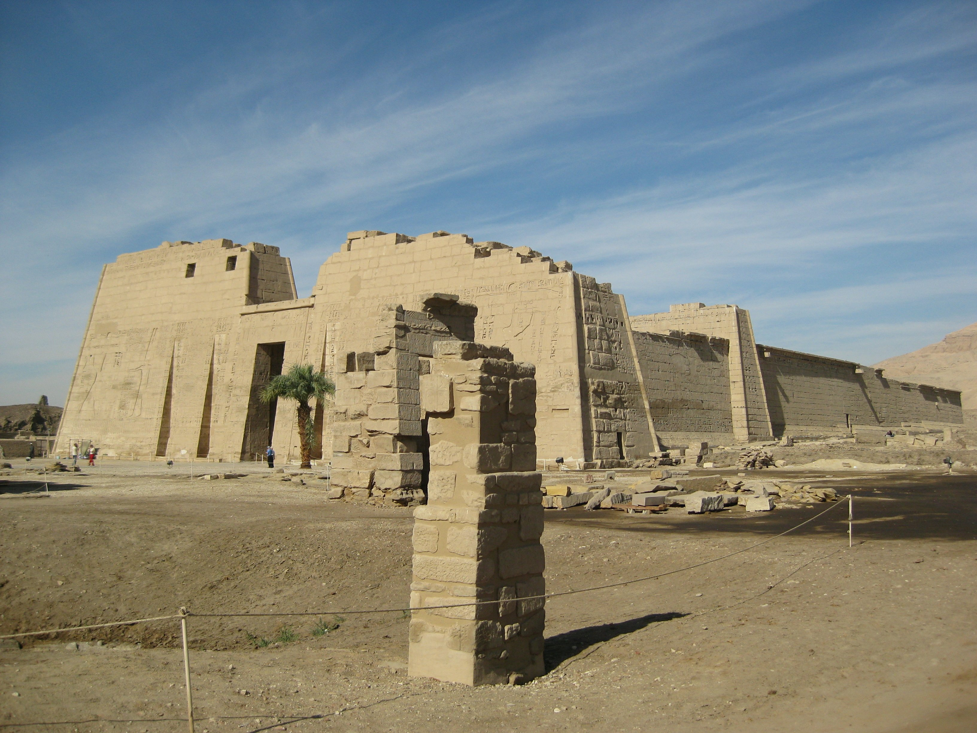 Temple of Rameses III - Medinet Habu